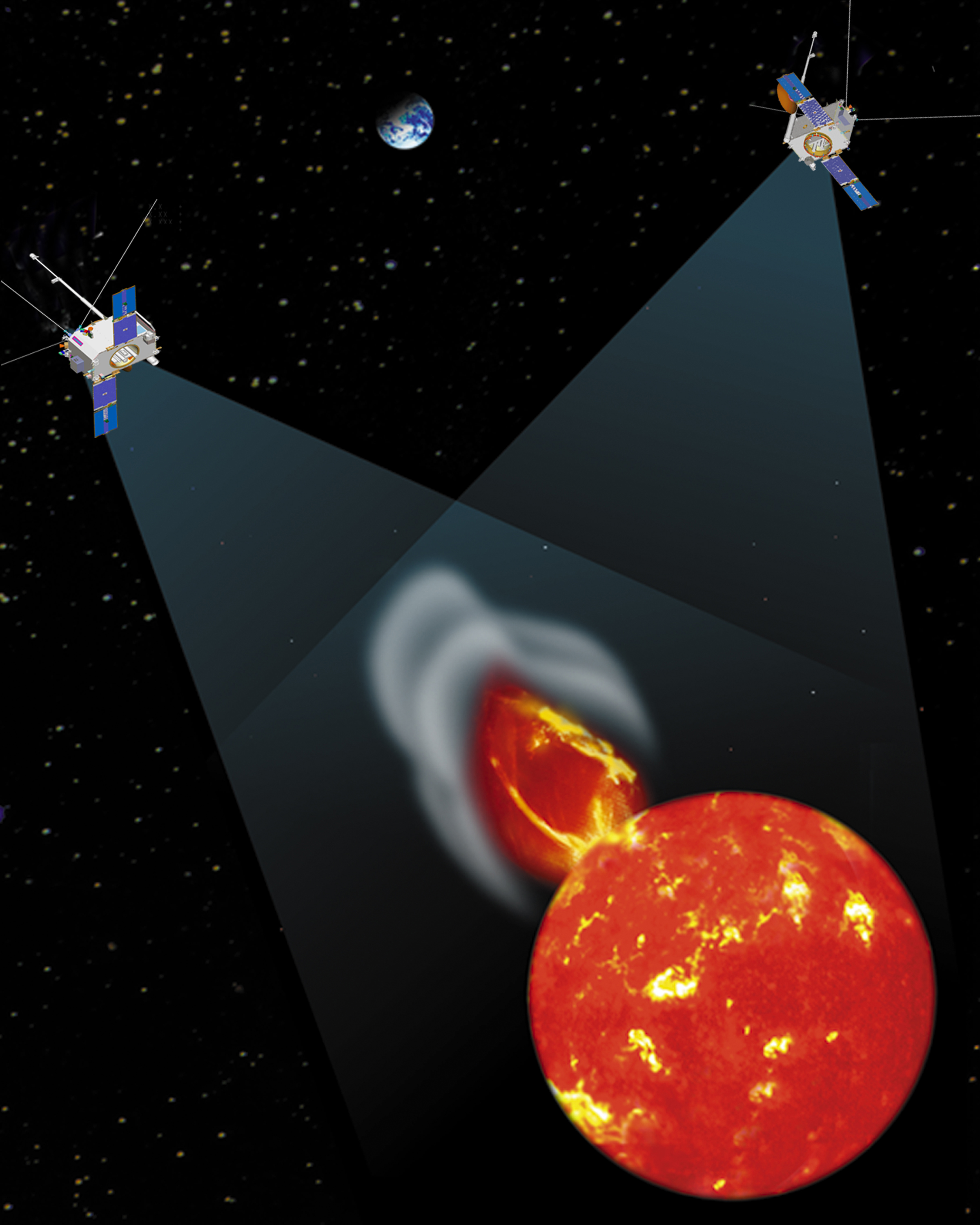 Overlap of field of view of instruments on both STEREO probes